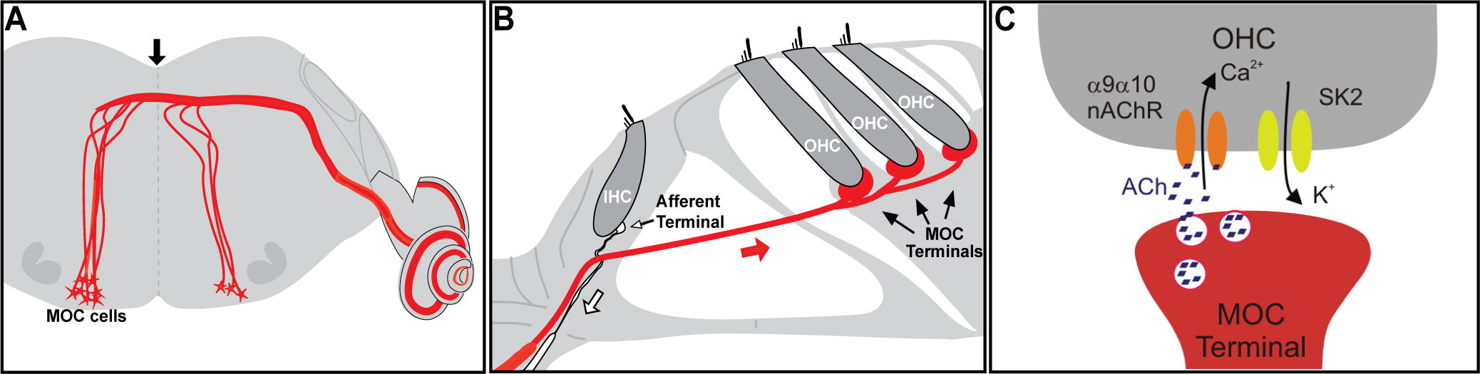 Schematics Showing the Central Origin (A) and Peripheral Projections (B) of the MOC Fibers and the Cholinergic Synapse onto OHCs in the Mature Organ of Corti (C) MOC efferent neurons are located in the superior olivary complex of the brainstem and project to the cochlea, where they make direct synaptic contacts at the base of the OHCs. At this synapse, ACh is released. It binds to α9α10 receptors present at the OHCs, leading to Ca2+ influx and the subsequent activation of Ca2+-dependent SK2 K+ channels and hair cell hyperpolarization. The black arrow in (A) indicates the place of electrical stimulation to activate the MOC fibers. The white arrow in (B) indicates the afferent fibers that bring the information from the IHCs to the central nervous system, and the red arrow indicates the MOC fibers. For approximately 10 d after birth (before the onset of hearing), cholinergic efferents temporarily synapse directly with IHCs (not shown in the figure) and provide a useful experimental target for the study of altered α9α10 receptors.